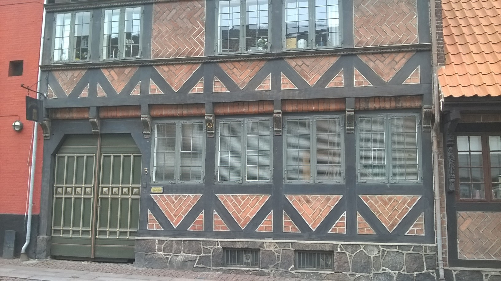 Ridderhuset i Riddergade.